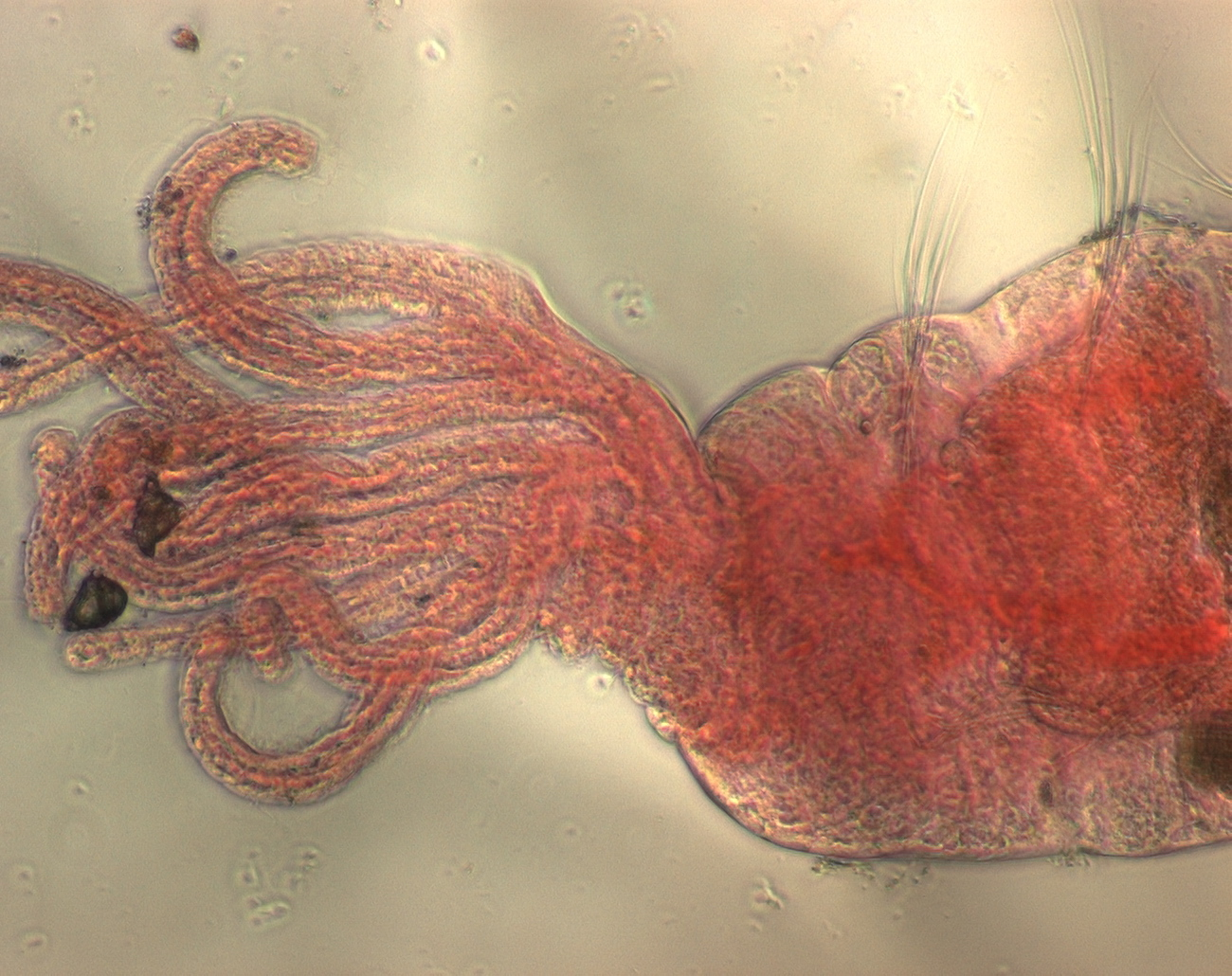 a polychaete from the Belgian continental shelf (Southern North Sea).